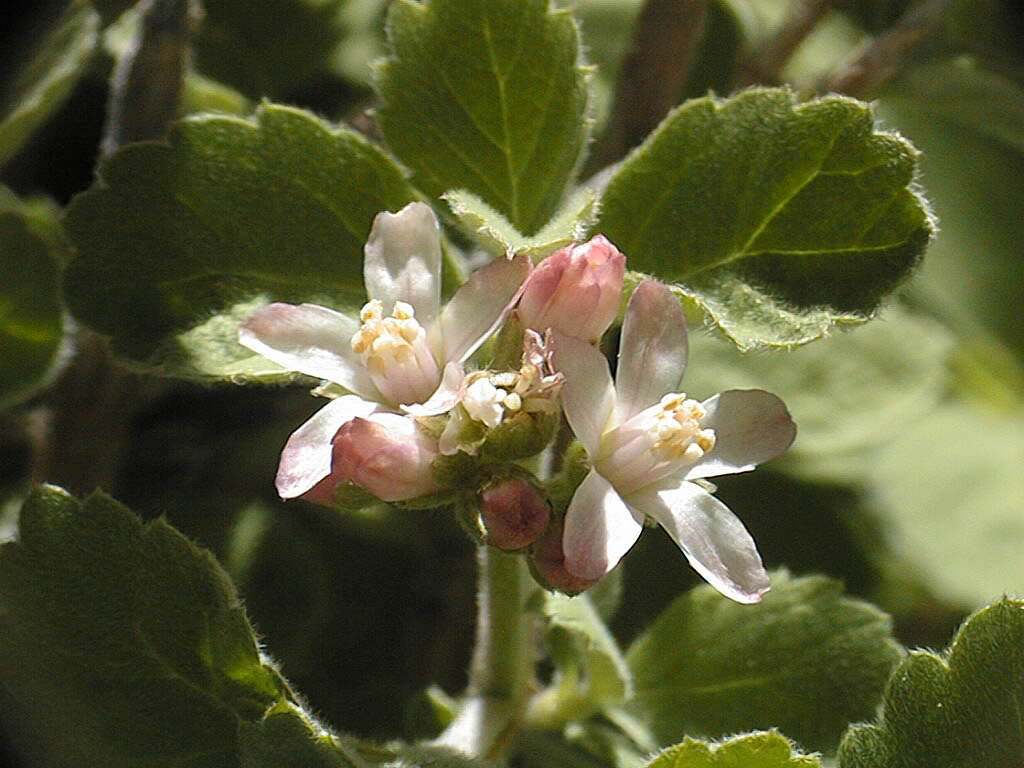 Along the Bishop Pass Trail of the eastern Sierra Nevada in California, elevation 3210 m. Family: Philadelphaceae